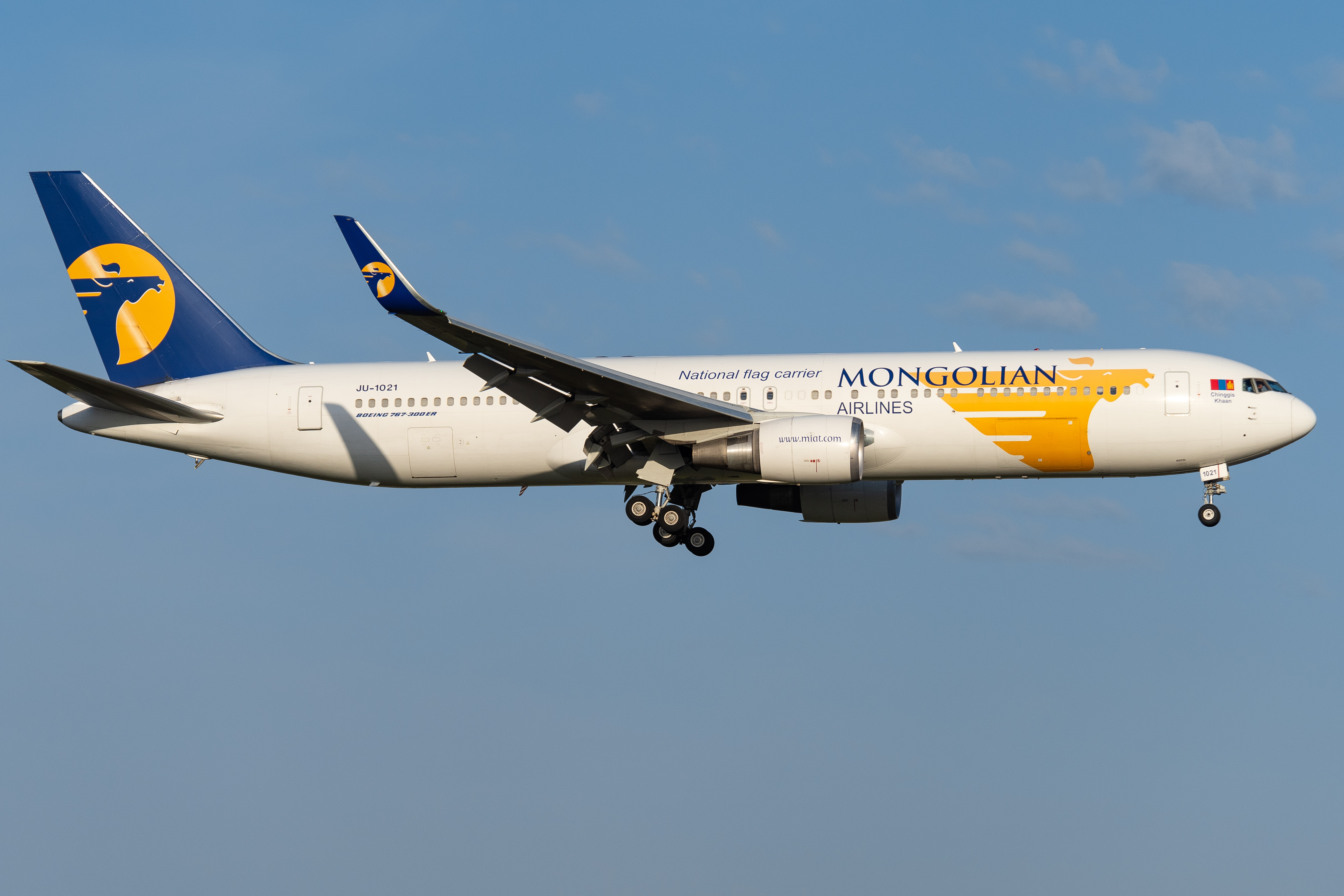 Mongol Air 227 from Ulaanbaatar. So early today?